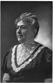 Luisa Cappiani (pseudonym of Luisa Kapp-Young)